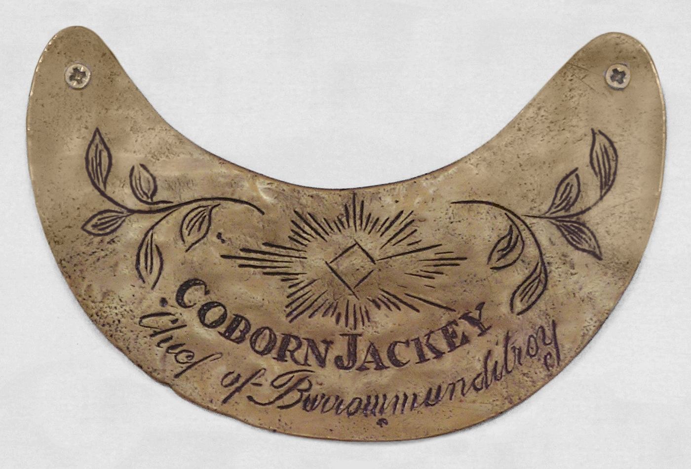 Brass breastplate presented to the Aboriginal leader Coborn Jackey of the Burrowmunditory tribe by James White a squatter at what is now present day Young, New South Wales, Australia. The artefact is held in the museum at Young.